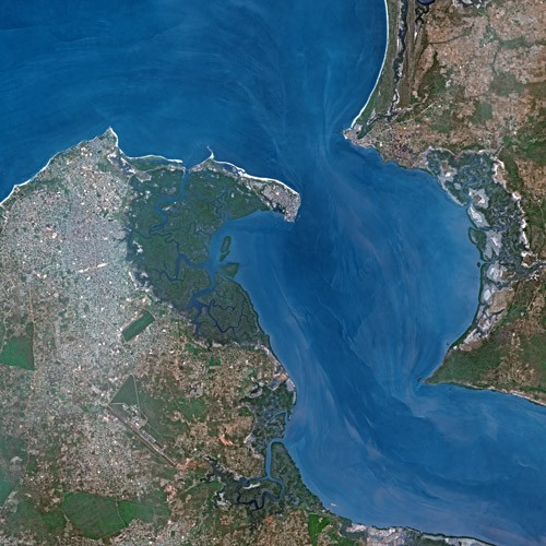 Banjul by SPOT Satellite